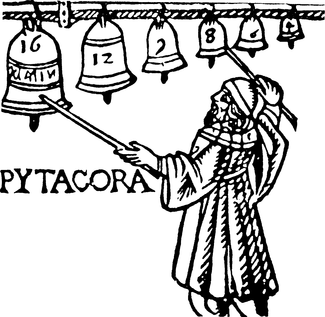 Section of a woodcut showing Pythagoras with bells in Pythagorean tuning. From Theorica musicae by Franchino Gaffurio, 1492 (1480?)